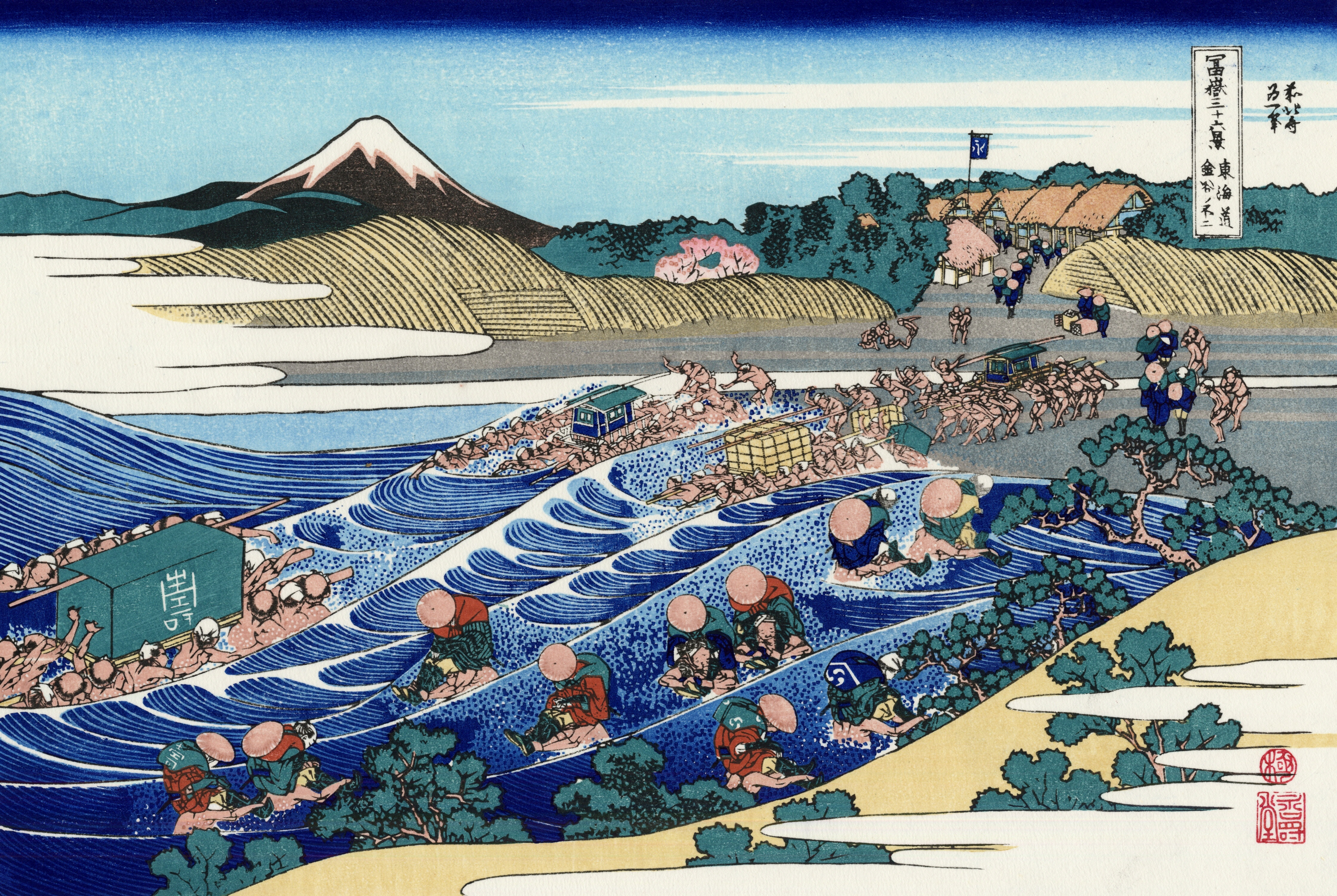 Part of the series Thirty-six Views of Mount Fuji, no. 37, 1st additional woodcut.